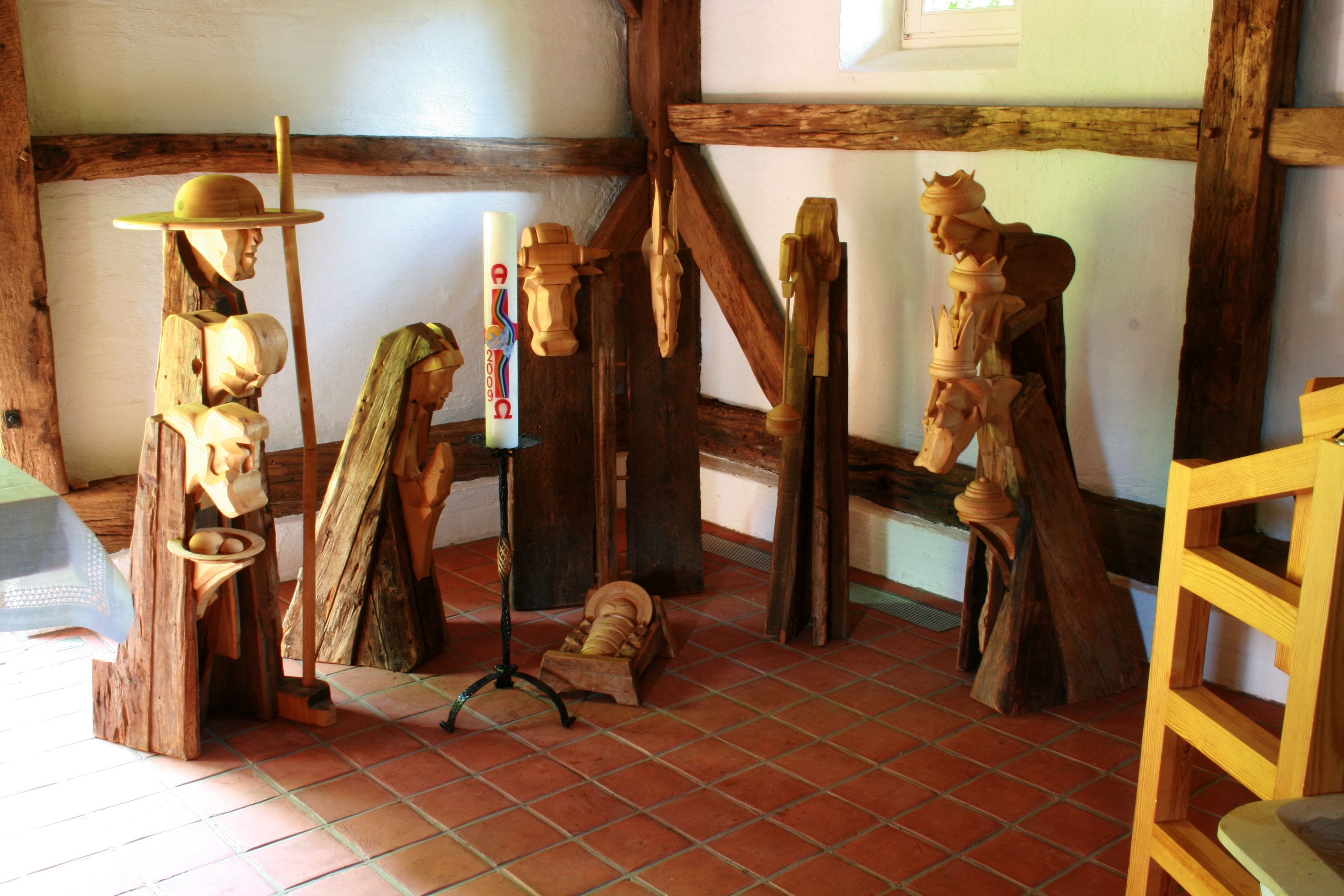 This nativity scene is displayed around the year